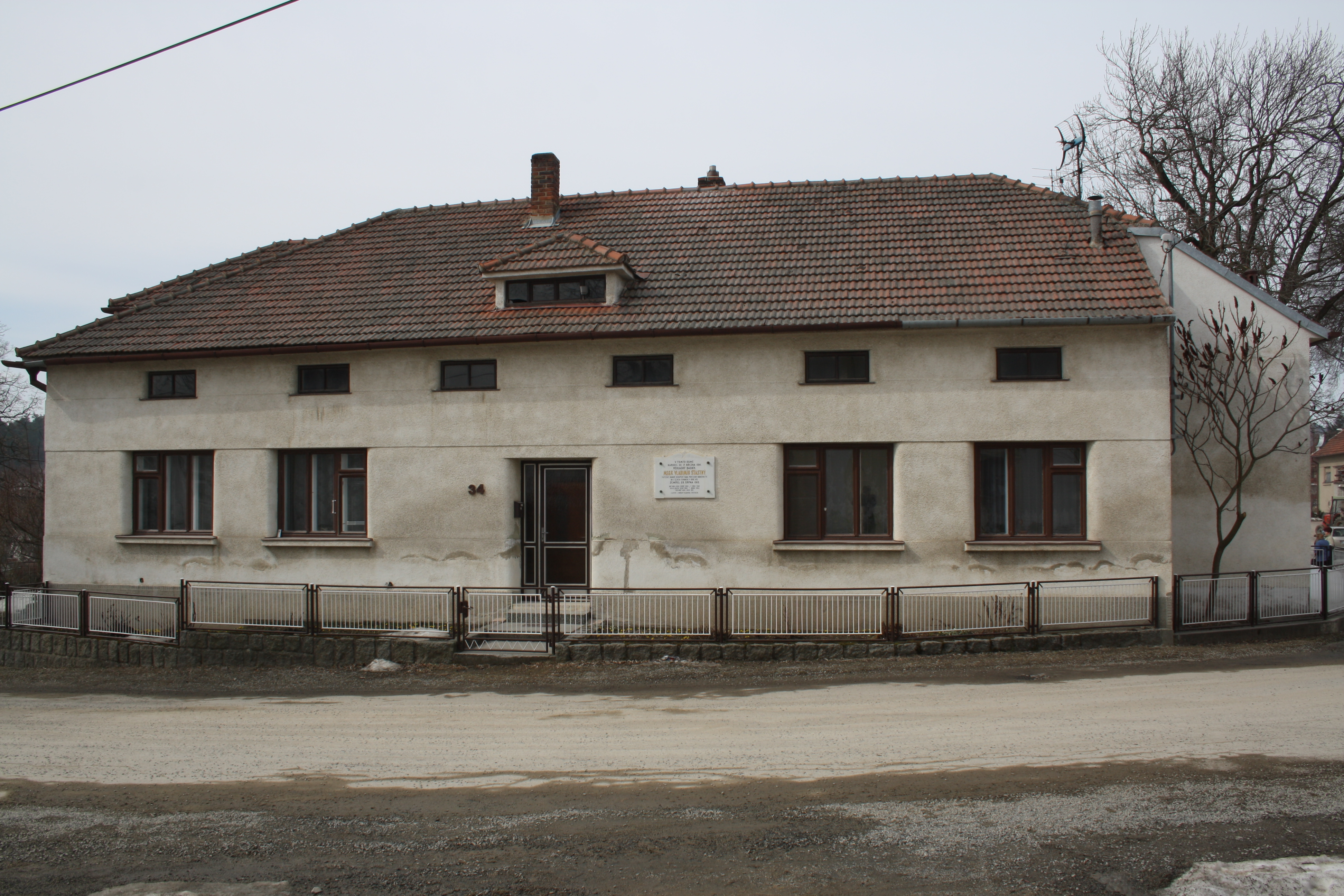 Native house of Msgr. Vladimír Šťastný in Rudíkov, Třebíč District.